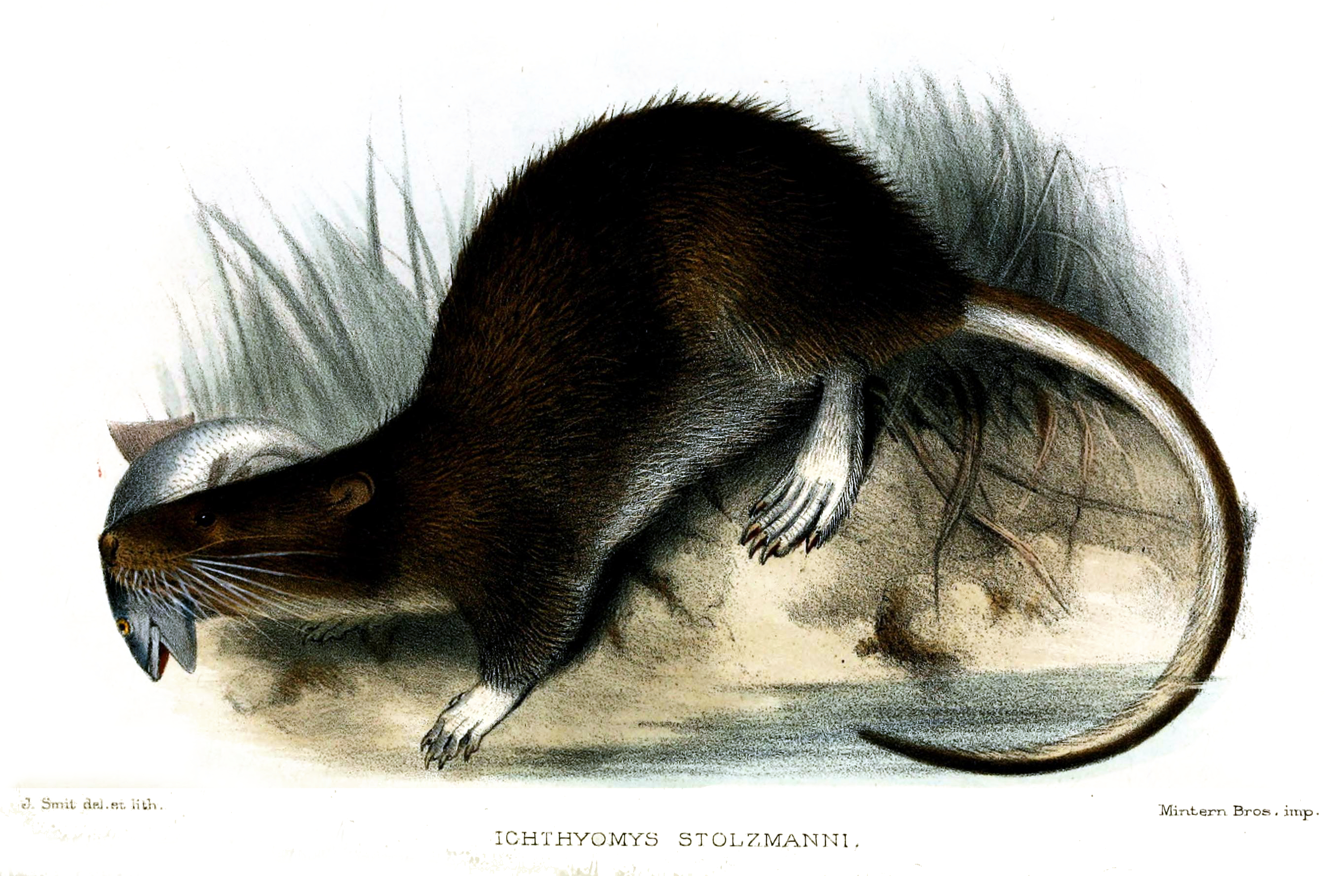 Icthyomys stolzmanni